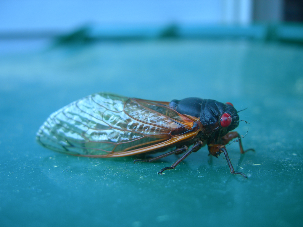 Magicicada sitting on garbage can.